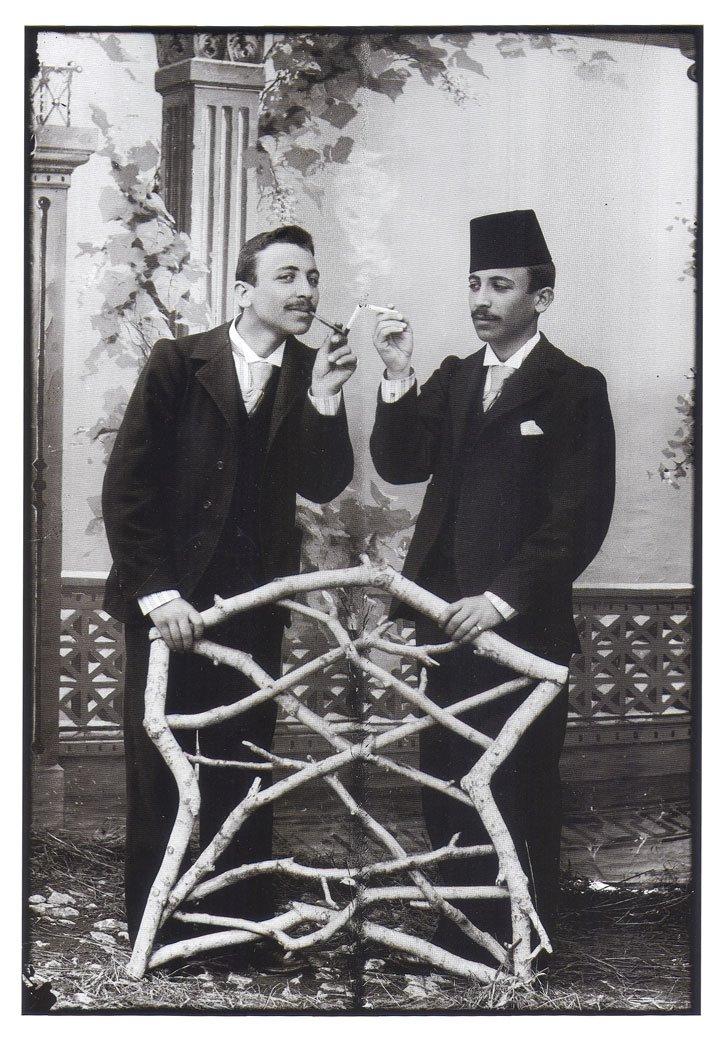 A trick photo showing two images of the photographer himself.